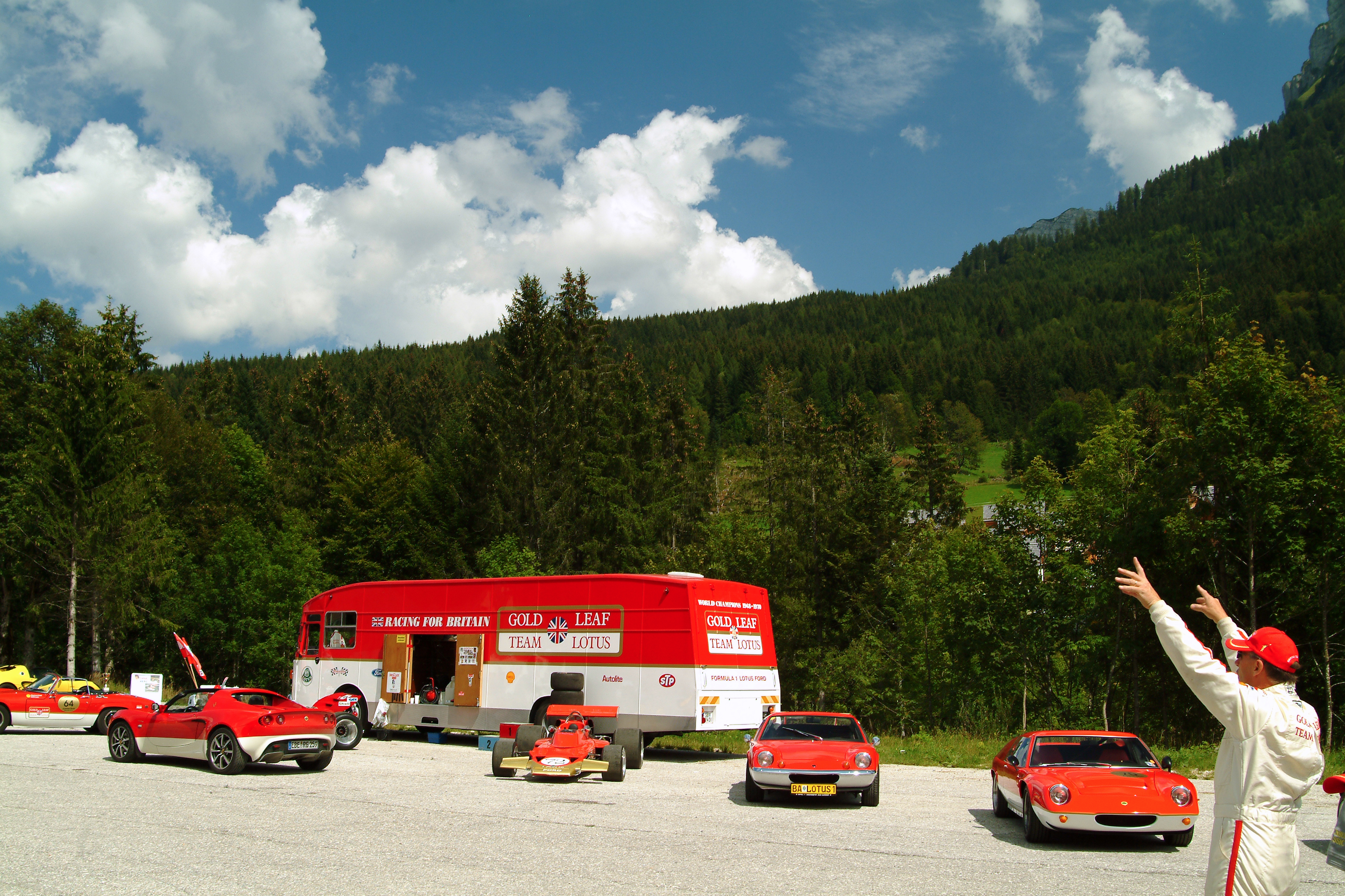 lotus motorhome from willenpart